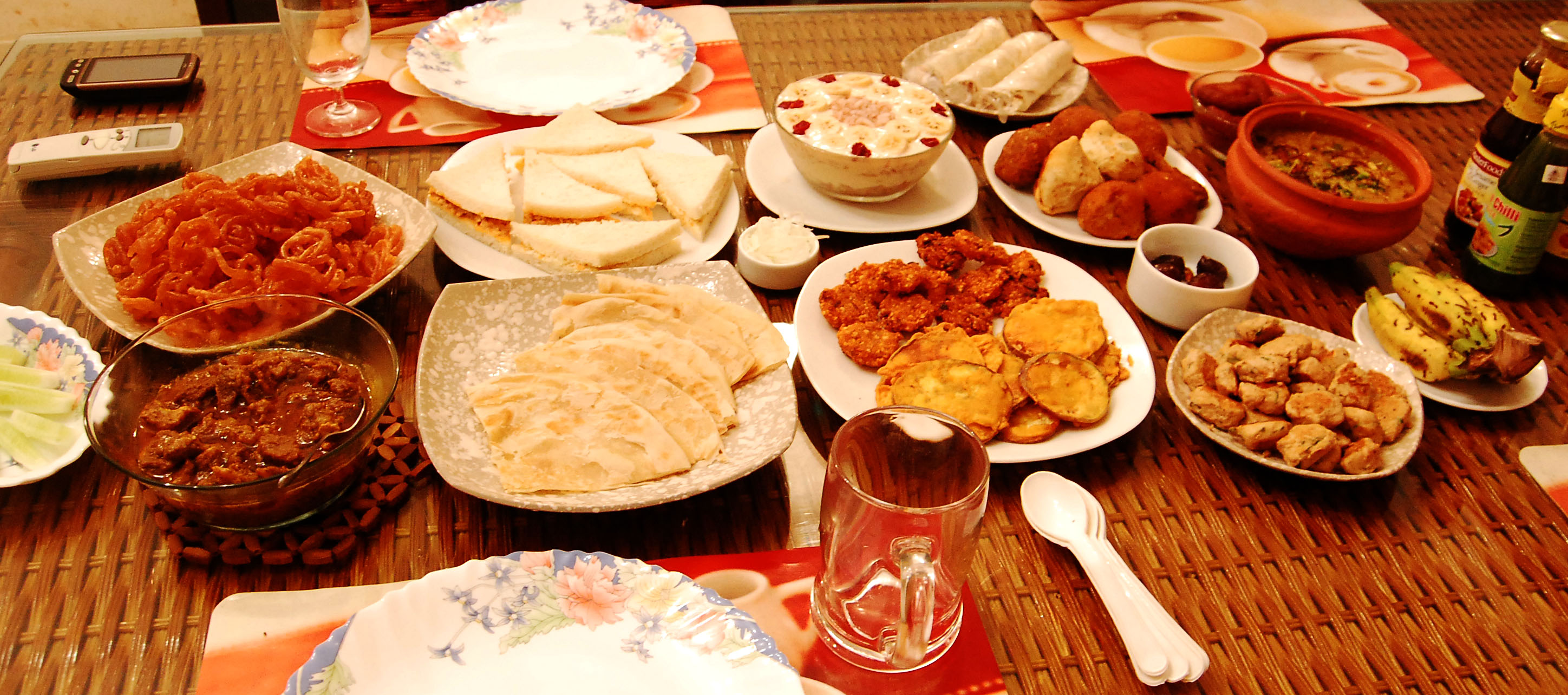 Iftar